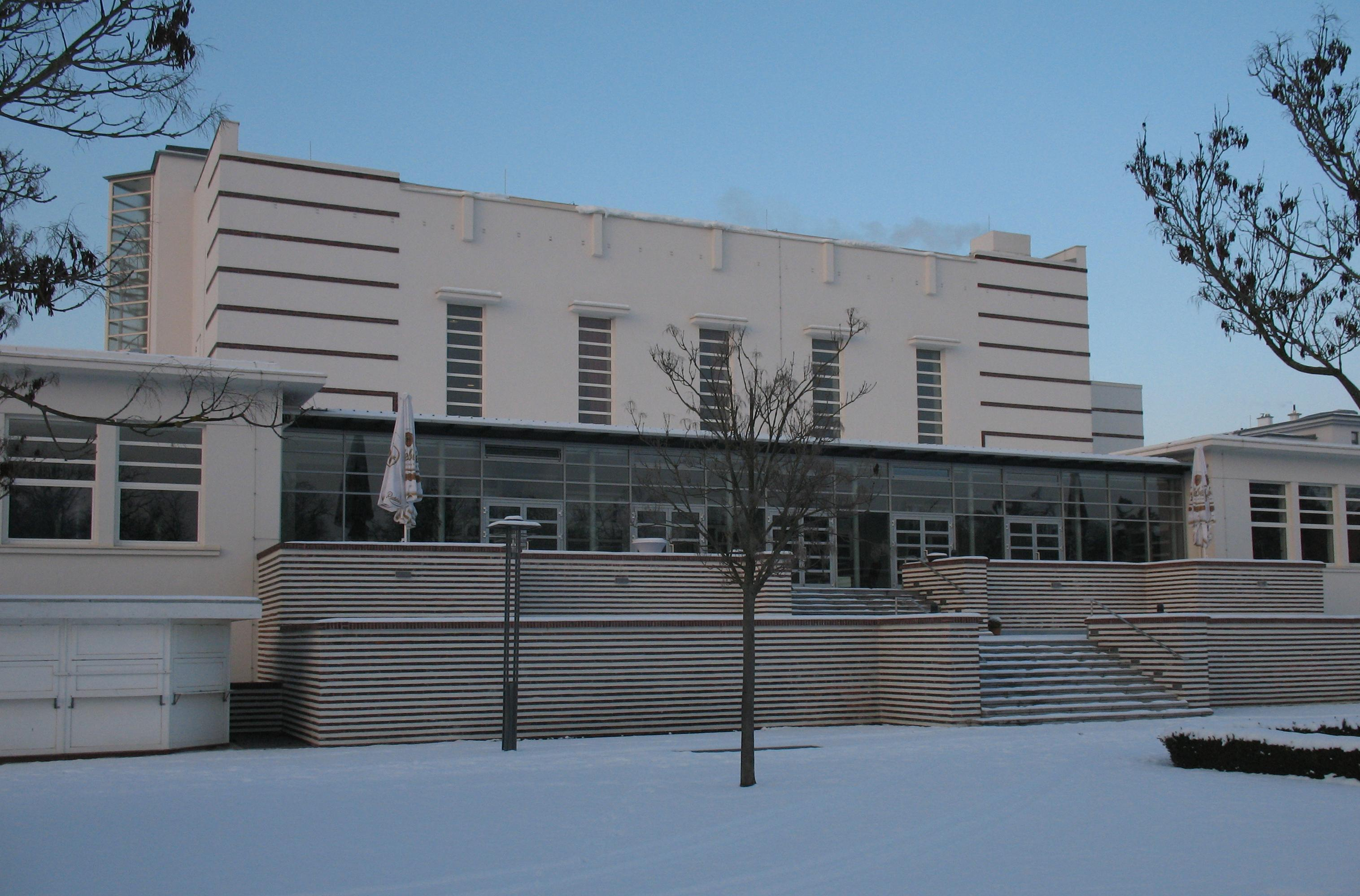 "Kurhaus" (Spa House) in Warnemünde in Mecklenburg-Western Pomerania, Germany